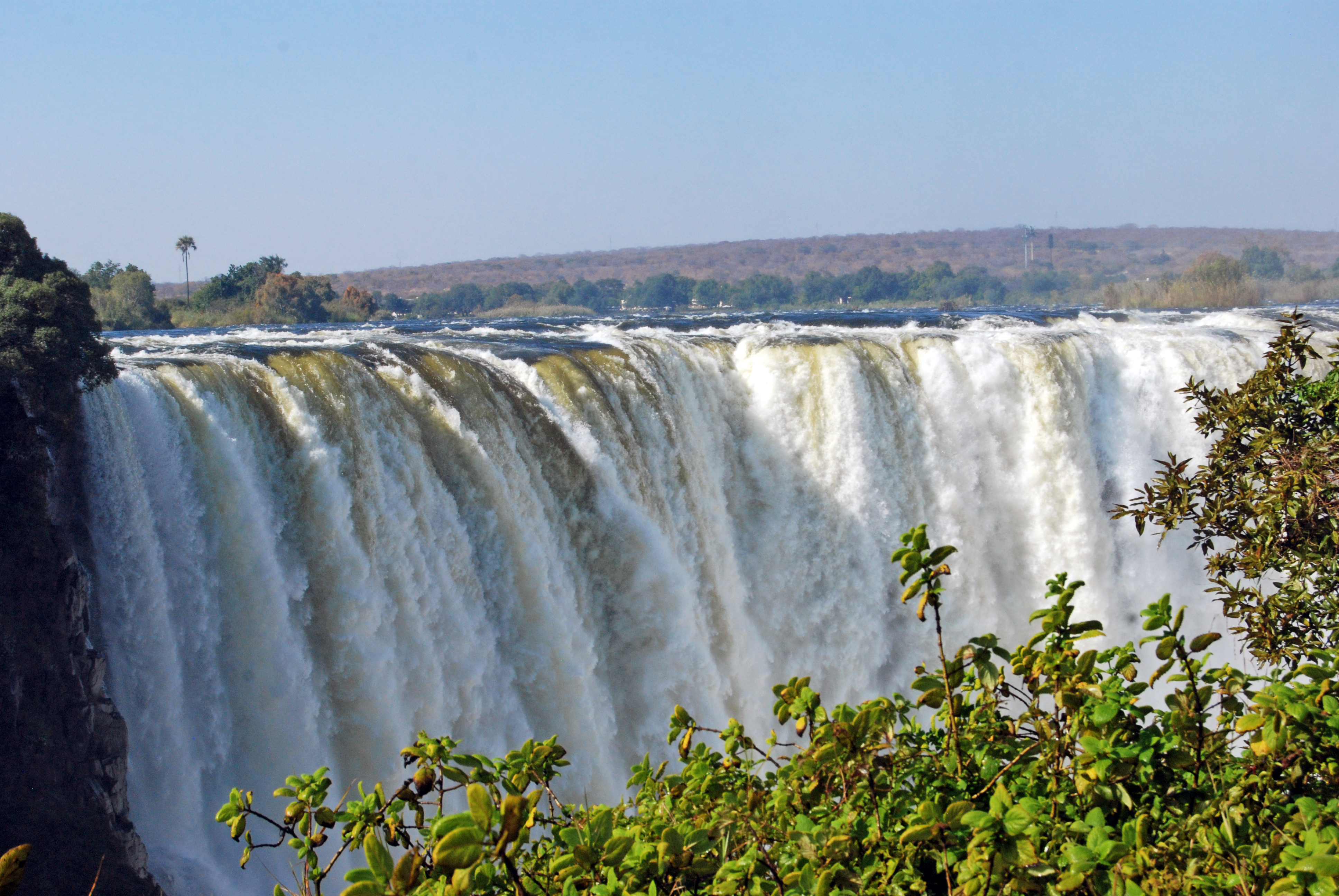 The Victoria Falls or Mosi-oa-Tunya (Translated as the "Cloud that Thunders") is a waterfall located in southern Africa on the Zambezi River between the countries of Zambia and Zimbabwe.